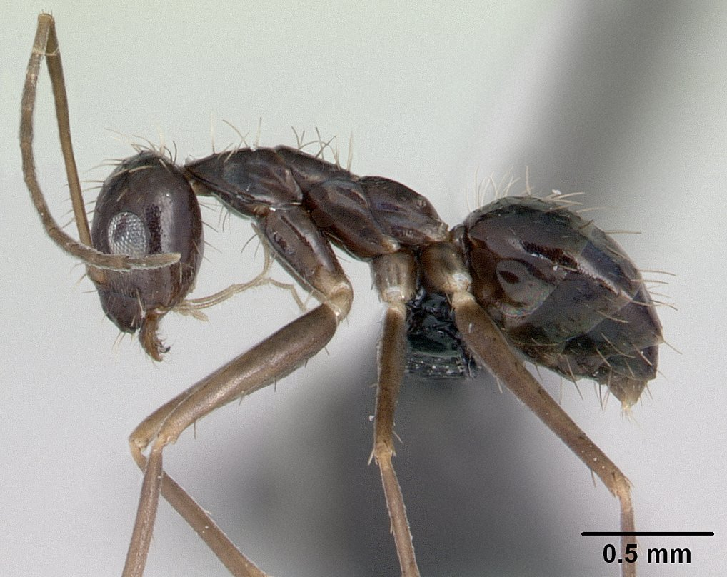 Profile view of ant Paratrechina longicornis specimen casent0134863.